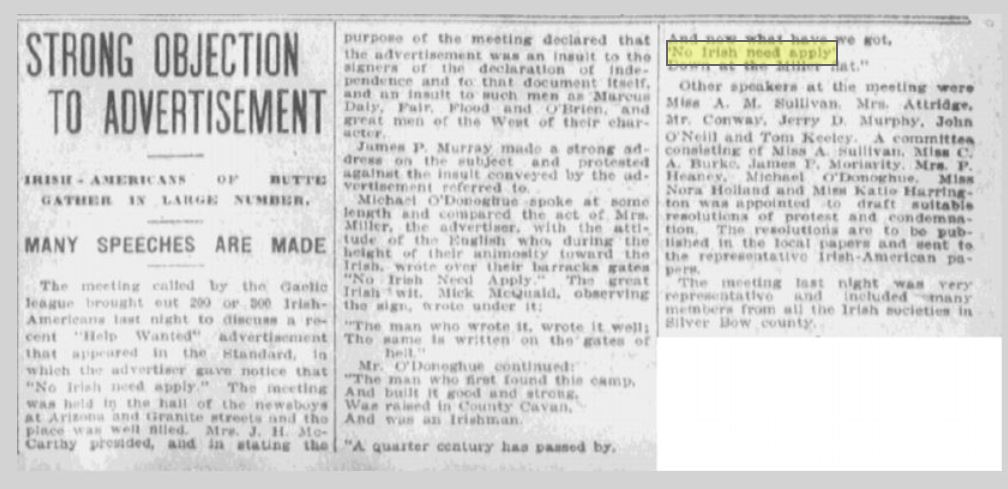 NINA from April 17, 1909.